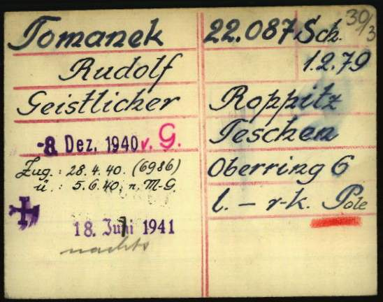 Registration card of Rudolf Tomanek as a prisoner at Dachau Nazi Concentration Camp. The stamped cross signals the day of his death.